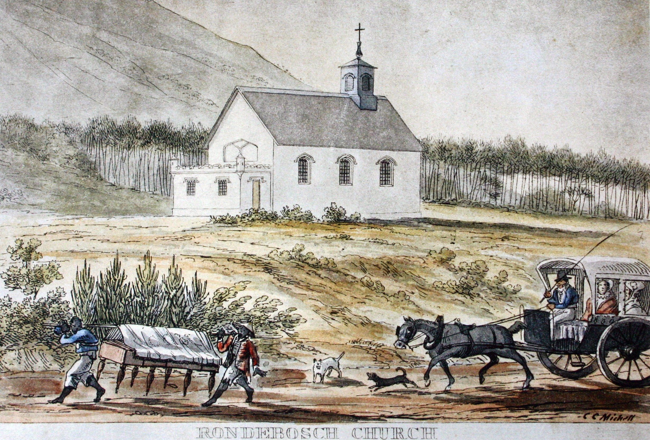 Rondebosch Church in Cape Town, designed by Charles Collier Michell - watercolour